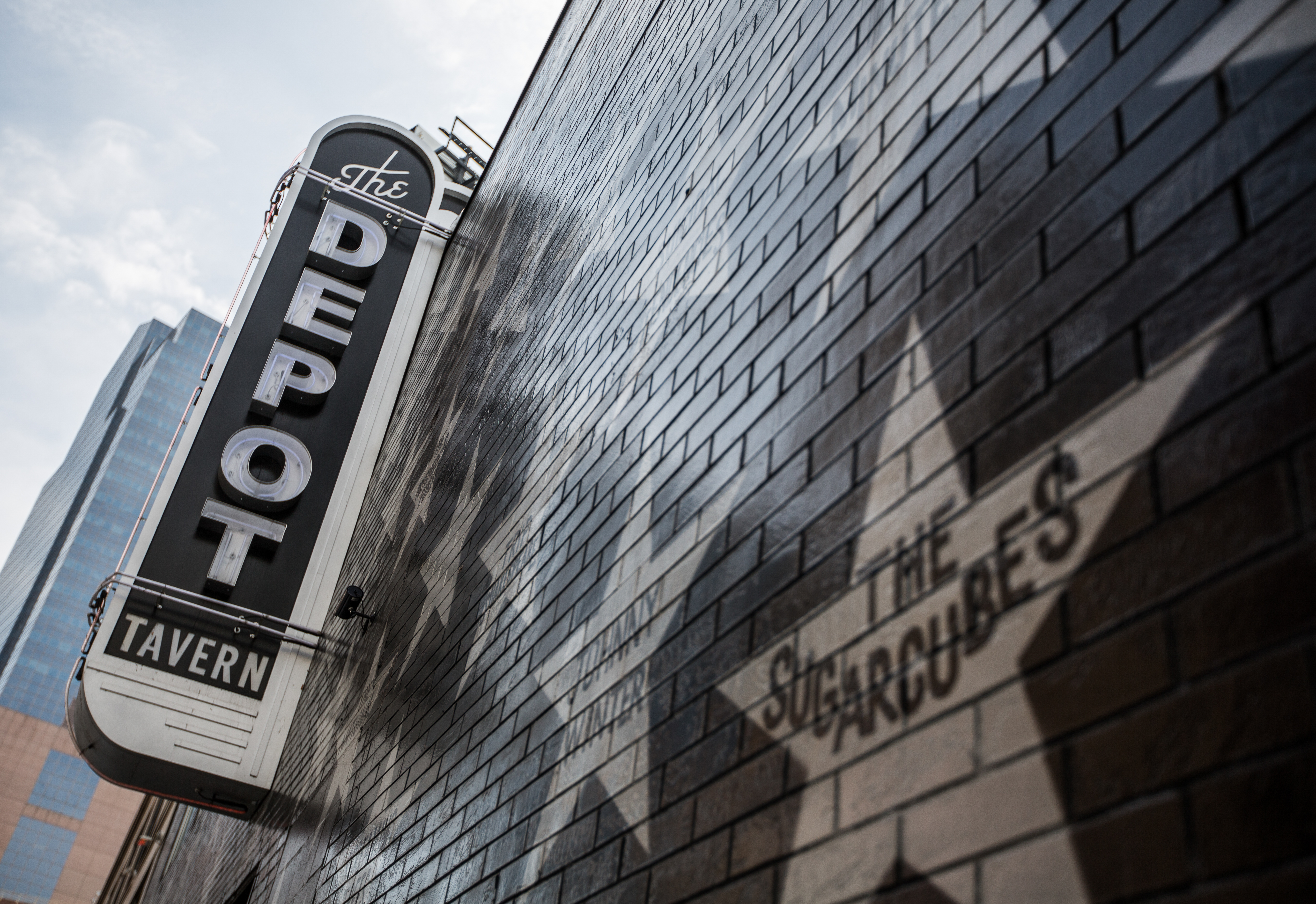 The Depot Tavern next to First Avenue and 7th Street Entry in Minneapolis, Minnesota.